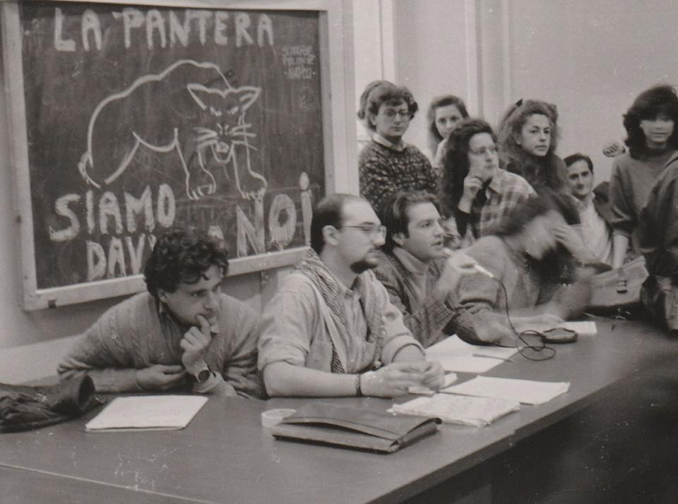 Assembly of the Student Movement "The Panther", at SPON - Political Science Occupied Naples, at the Faculty of Political Science of the University of Naples "Federico II". Picture taken by Angelo Di Dato in January 1990 in the Hall of the ground floor of Via Cardinale Guglielmo Sanfelice, 48 - Naples (NA)